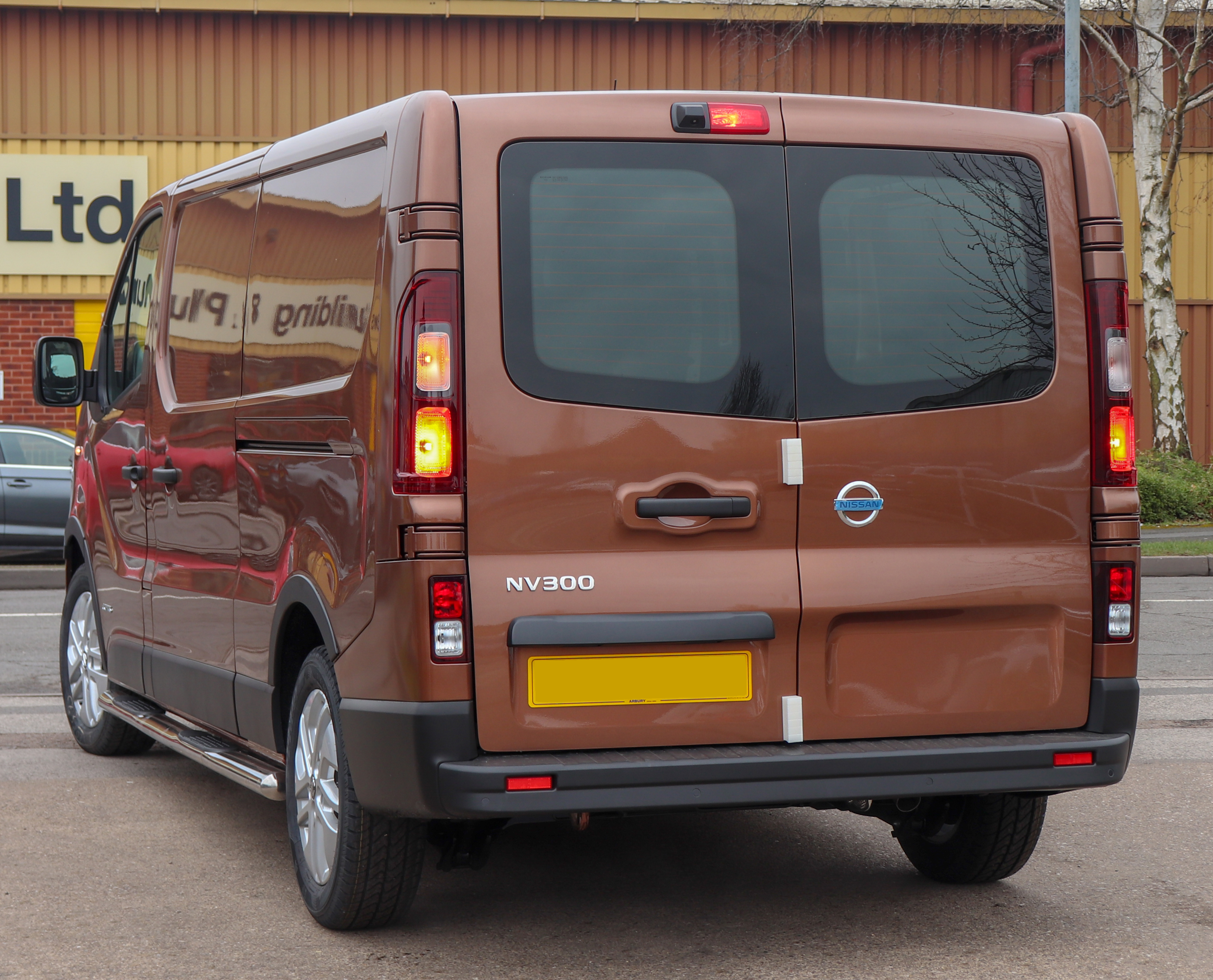 2019 Nissan NV300 1.6 Taken in Leamington Spa